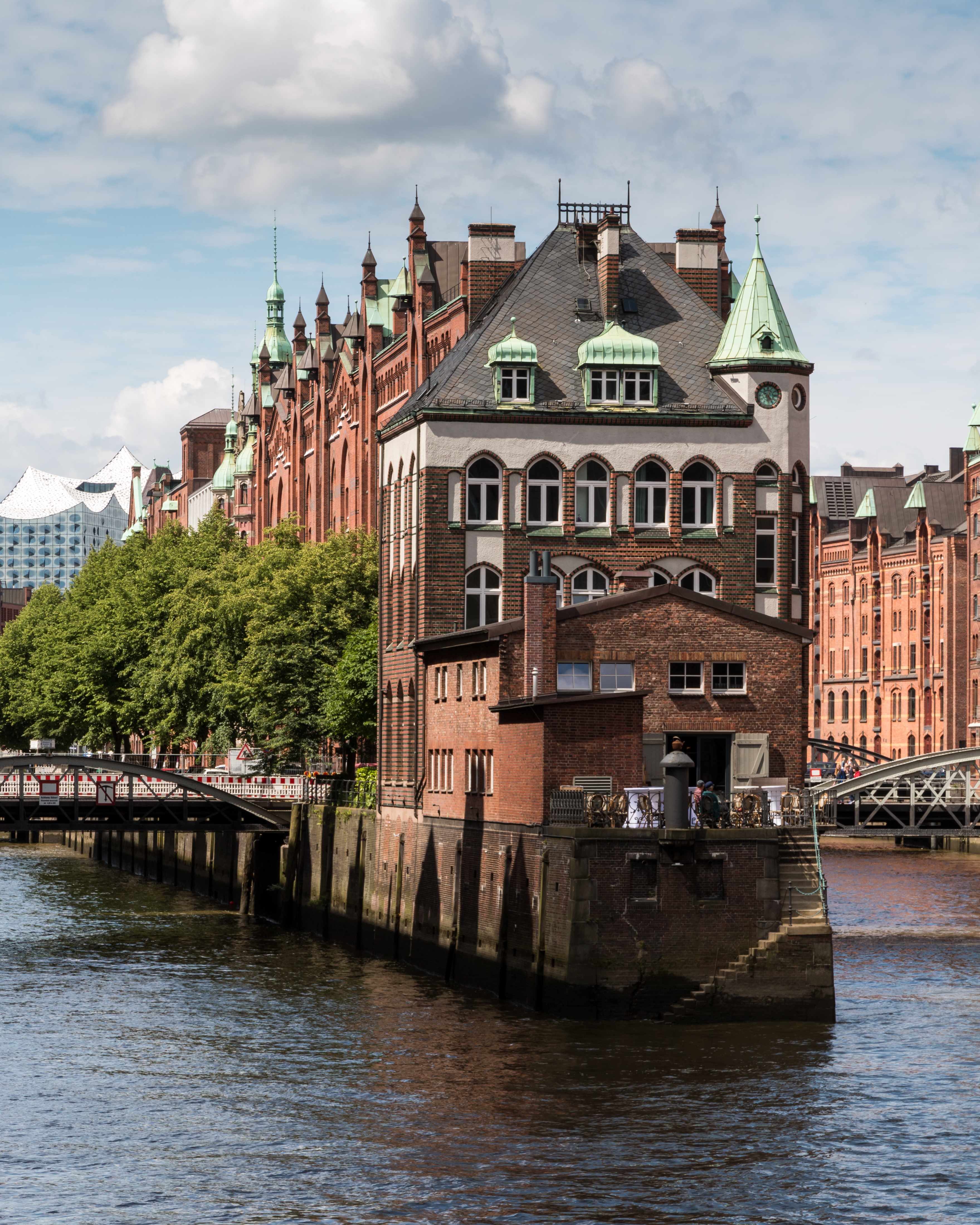 Wasserschloss at Wandrahmsfleet (und Holländischbrookfleet (left)) in the Speicherstadt, Hamburg, Germany This is a photograph of an architectural monument.